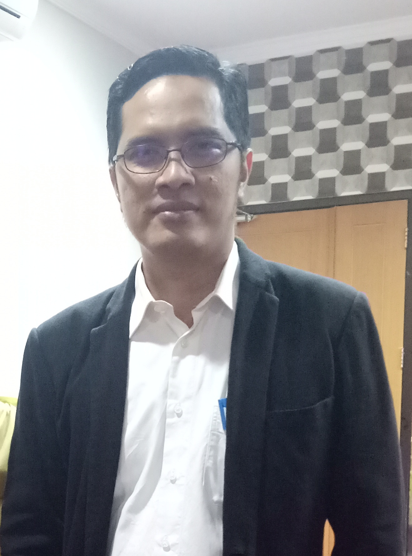 Febri Diansyah, KPK Spokesperson after being the talkshow speaker at the Gama Expo held by the UGM Minang Student Communication Forum at the Padang State University Auditorium, January 20, 2019.